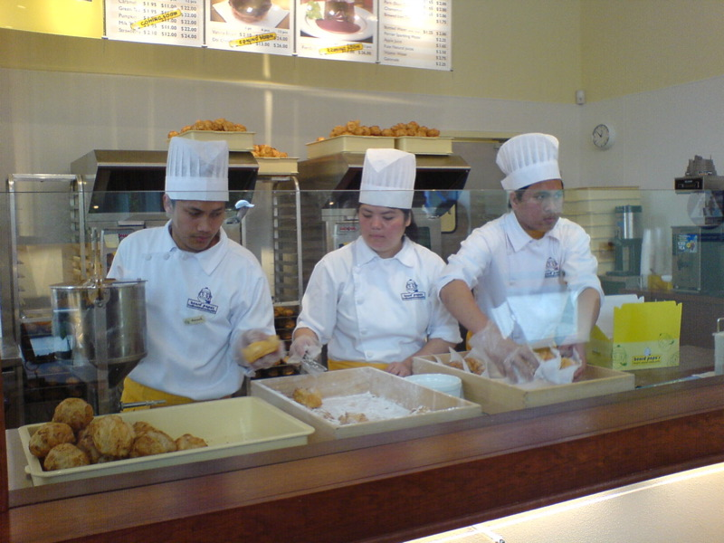 In case you don't get enough of the live assembly line, they also show the same process on large tv screens on the walls. I'm not sure why; it seems a little redundant.